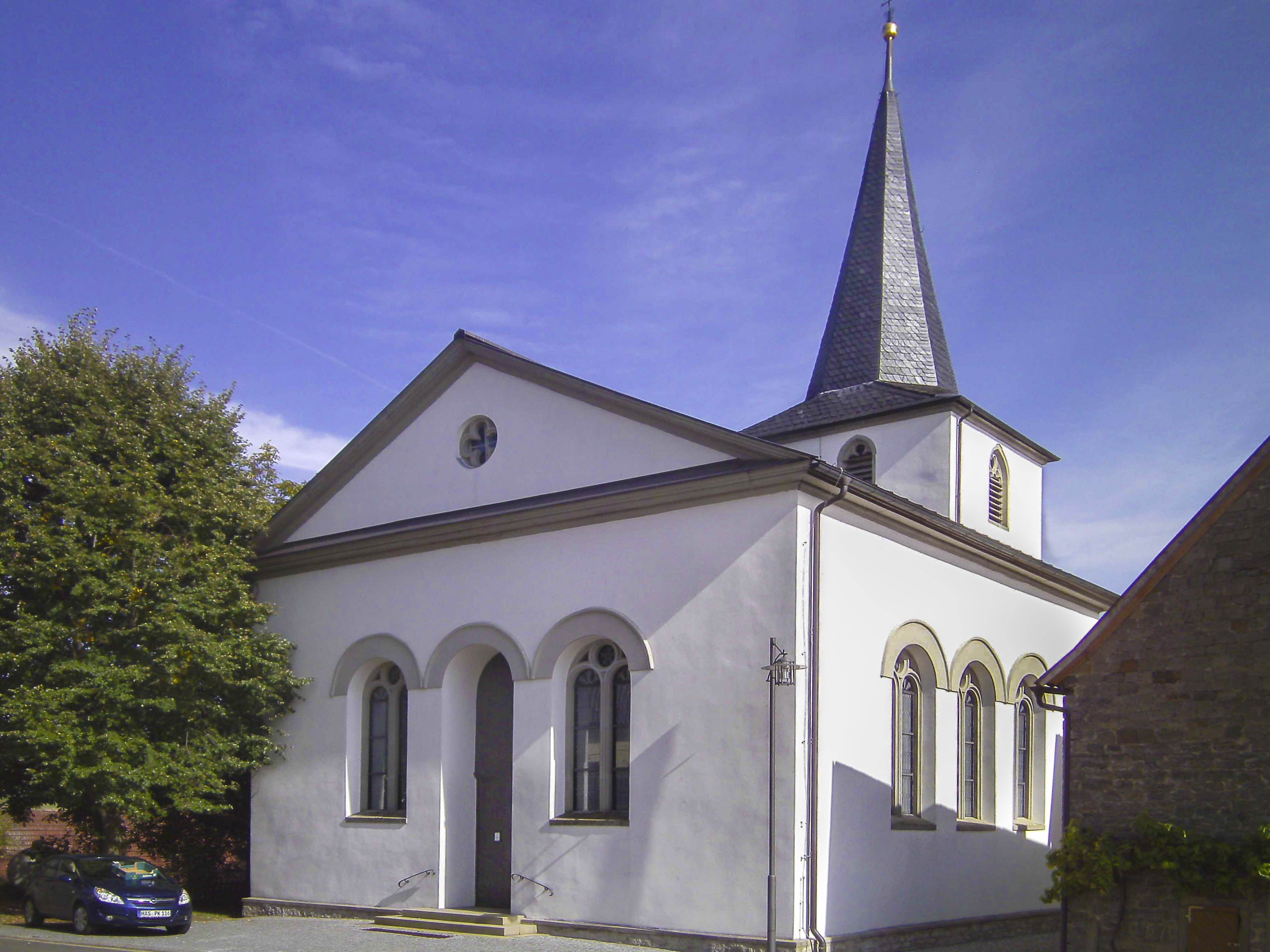 Pilgrimage church "Mary Victory" of Gresshausen. On the right part of the former school barn.